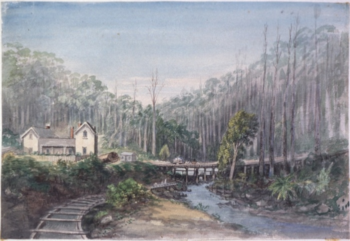 Tyson's saw mills (c. 1858) by Frederick Strange (1807-1874)